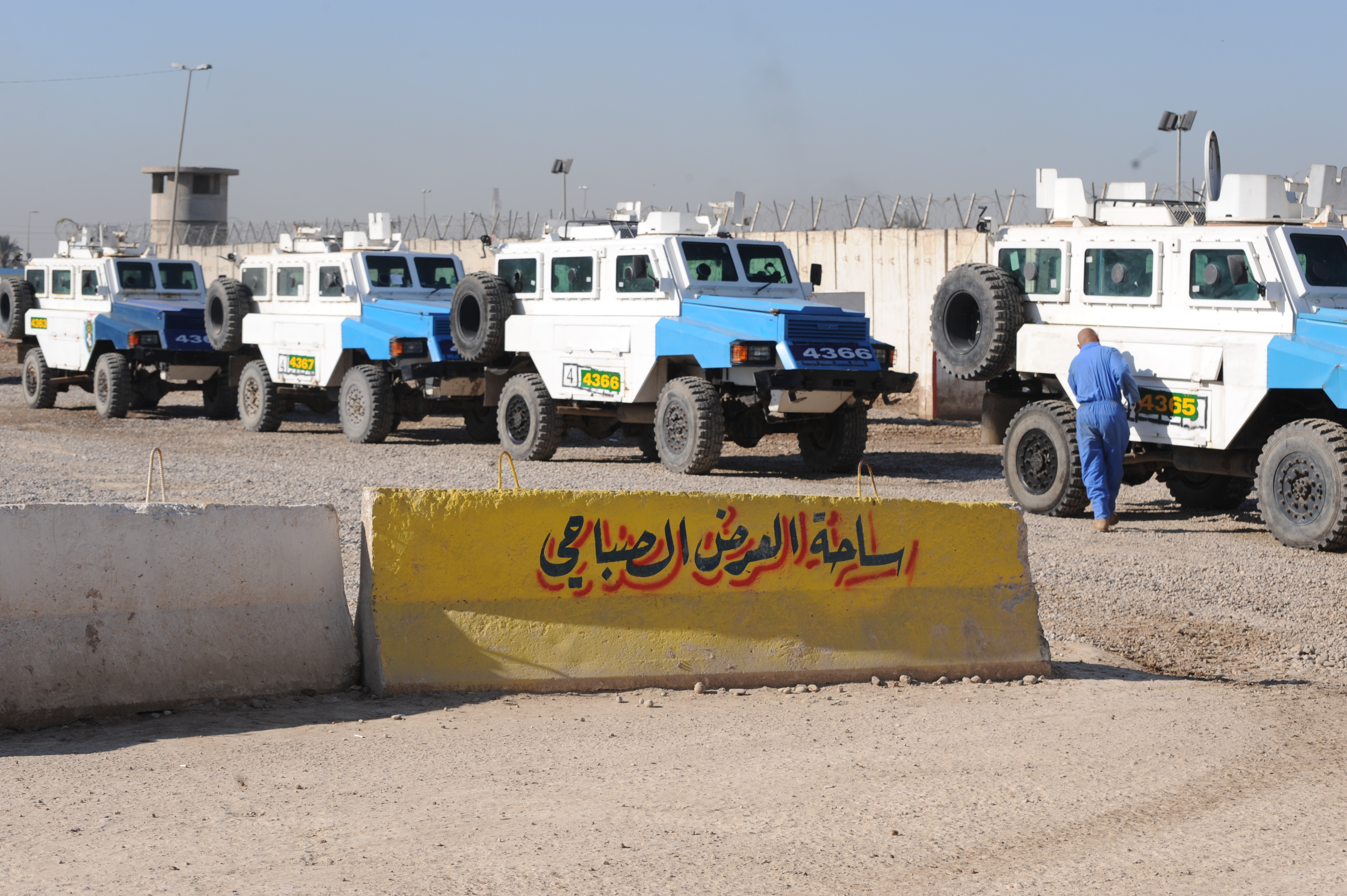 Iraqi National Police armored vehicles line up for a convoy at Joint Security Station Beladiyat, in Muhallah 732, at Beladiyat, in eastern Baghdad, Iraq.